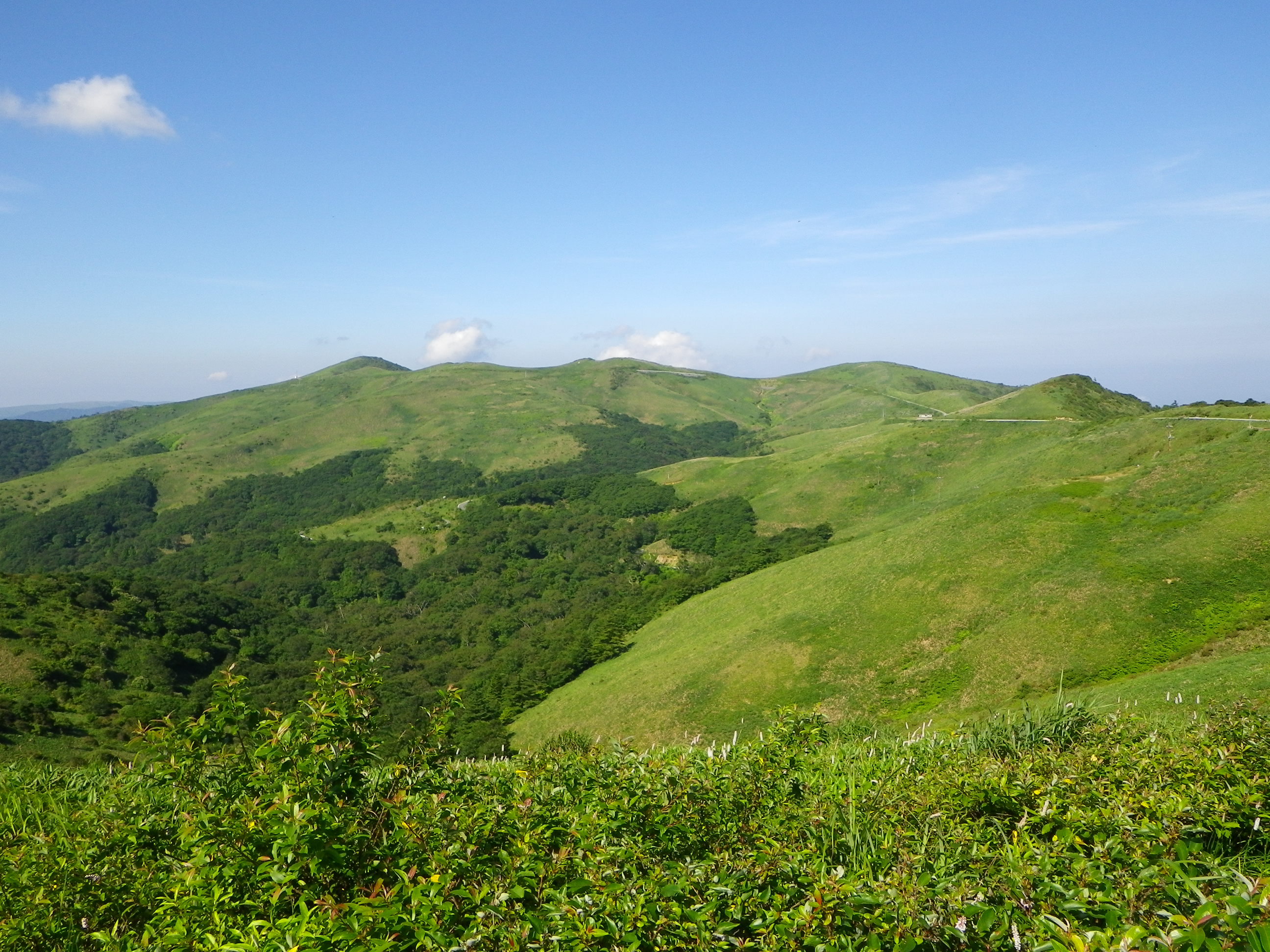 Mt.Okawamine and Mt.Kasatoriyama as seen from the northeast in Shikoku Mountains.